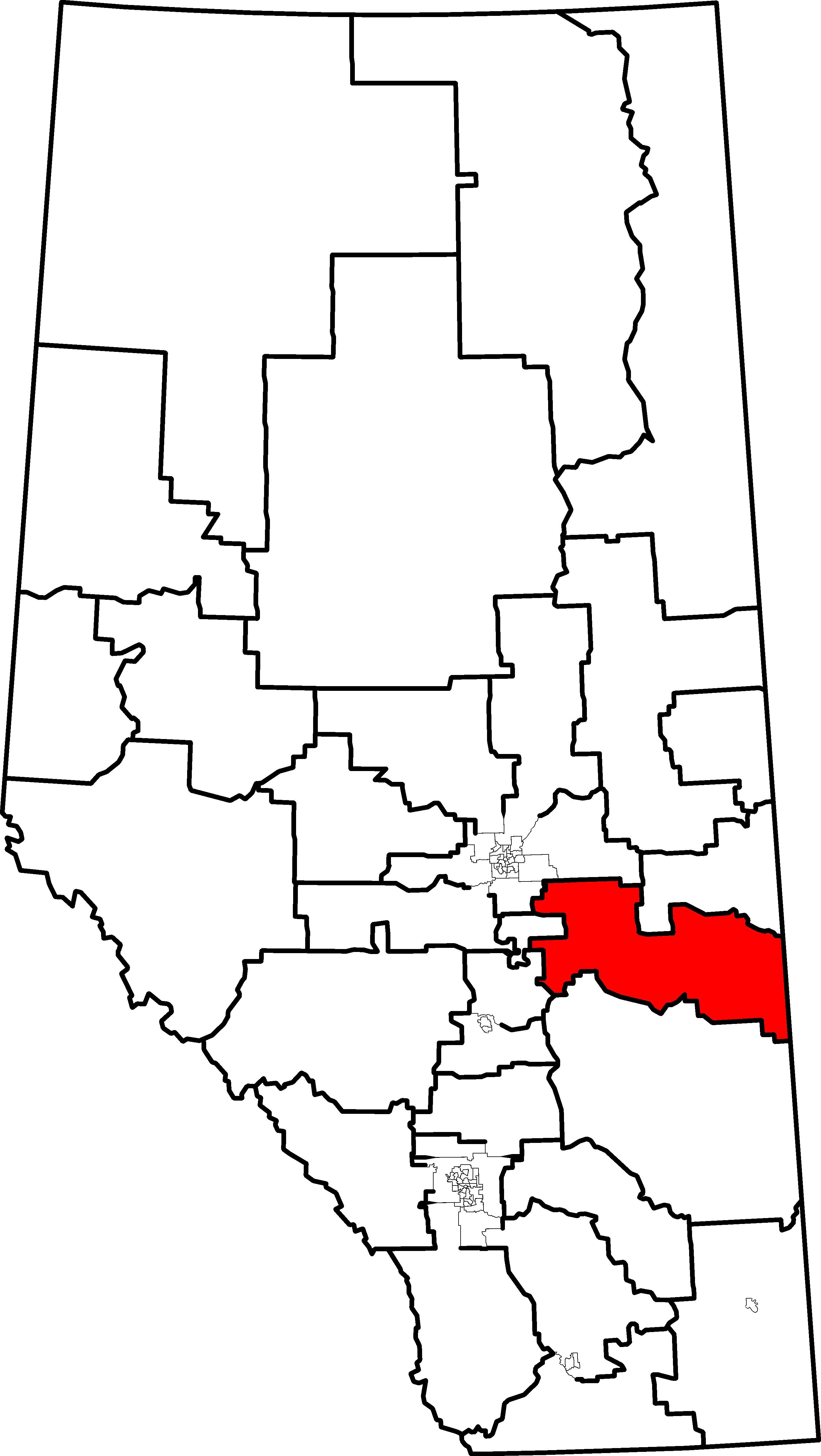 A map of the Alberta provincial electoral districts, effective 2010. Battle River-Wainwright is highlighted in red.